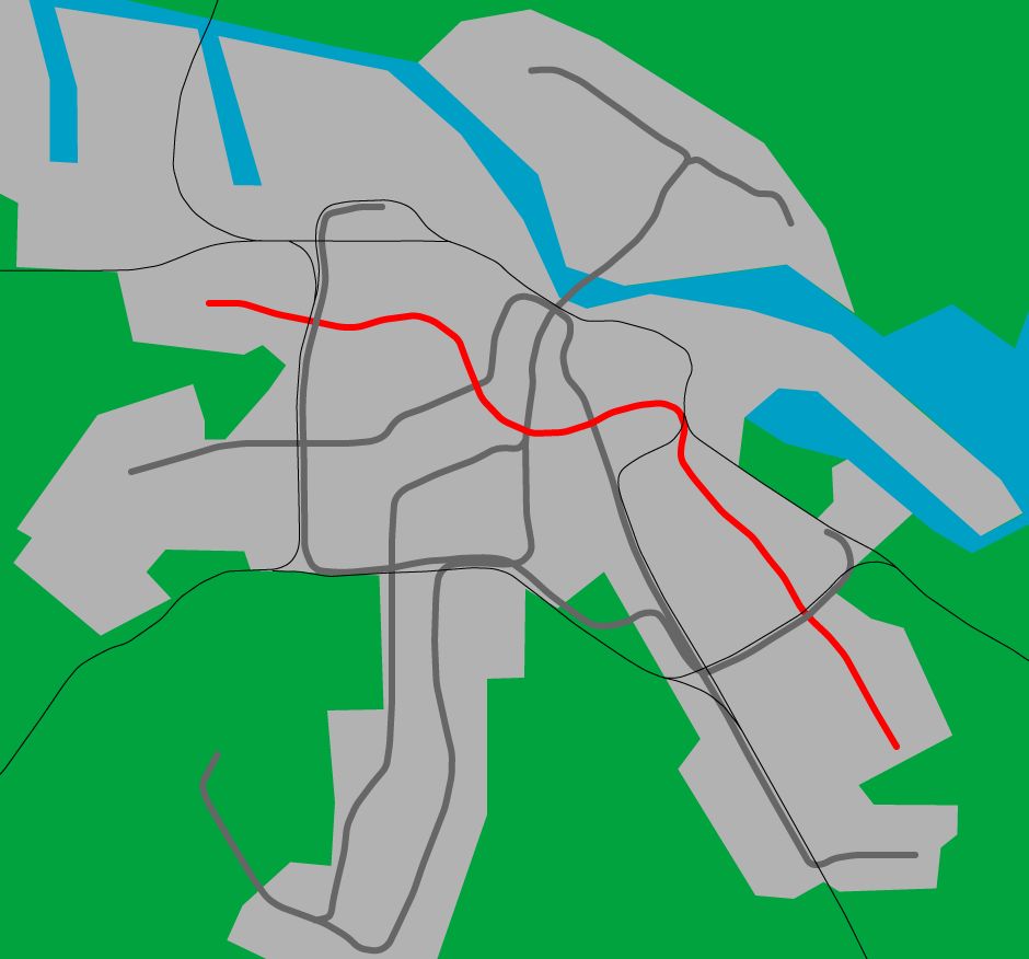 The "Oost-Westlijn" (east-west line) as originally planned in 1968.